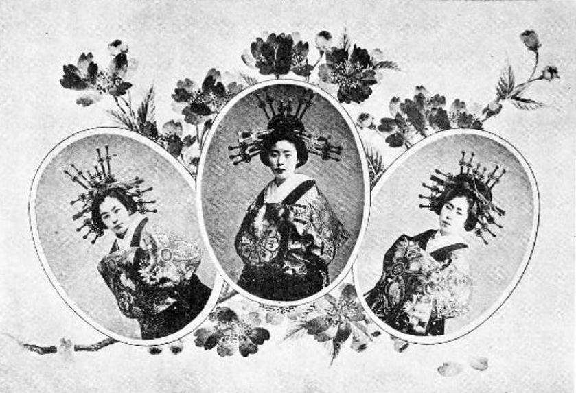 Picture of three oiran